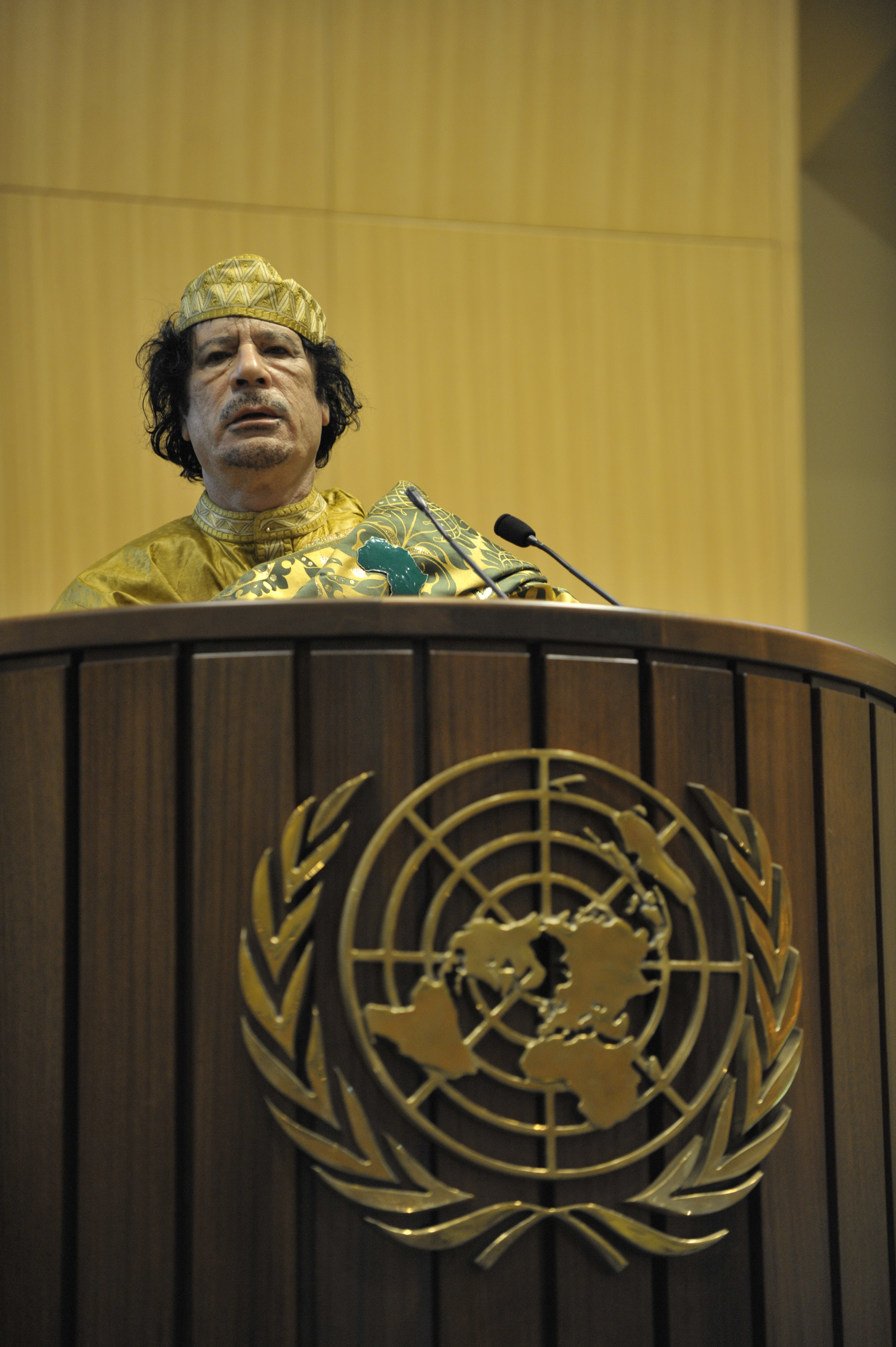 Muammar Qaddafi, the Libyan chief of state, gives his first speech as Chairperson of the African Union in the Plenary Hall of the United Nations building in Addis Ababa, Ethiopia, during the 12th African Union Summit Feb. 2, 2009. The assembly elected Qaddafi to replace Kikwete as chair of the organization.